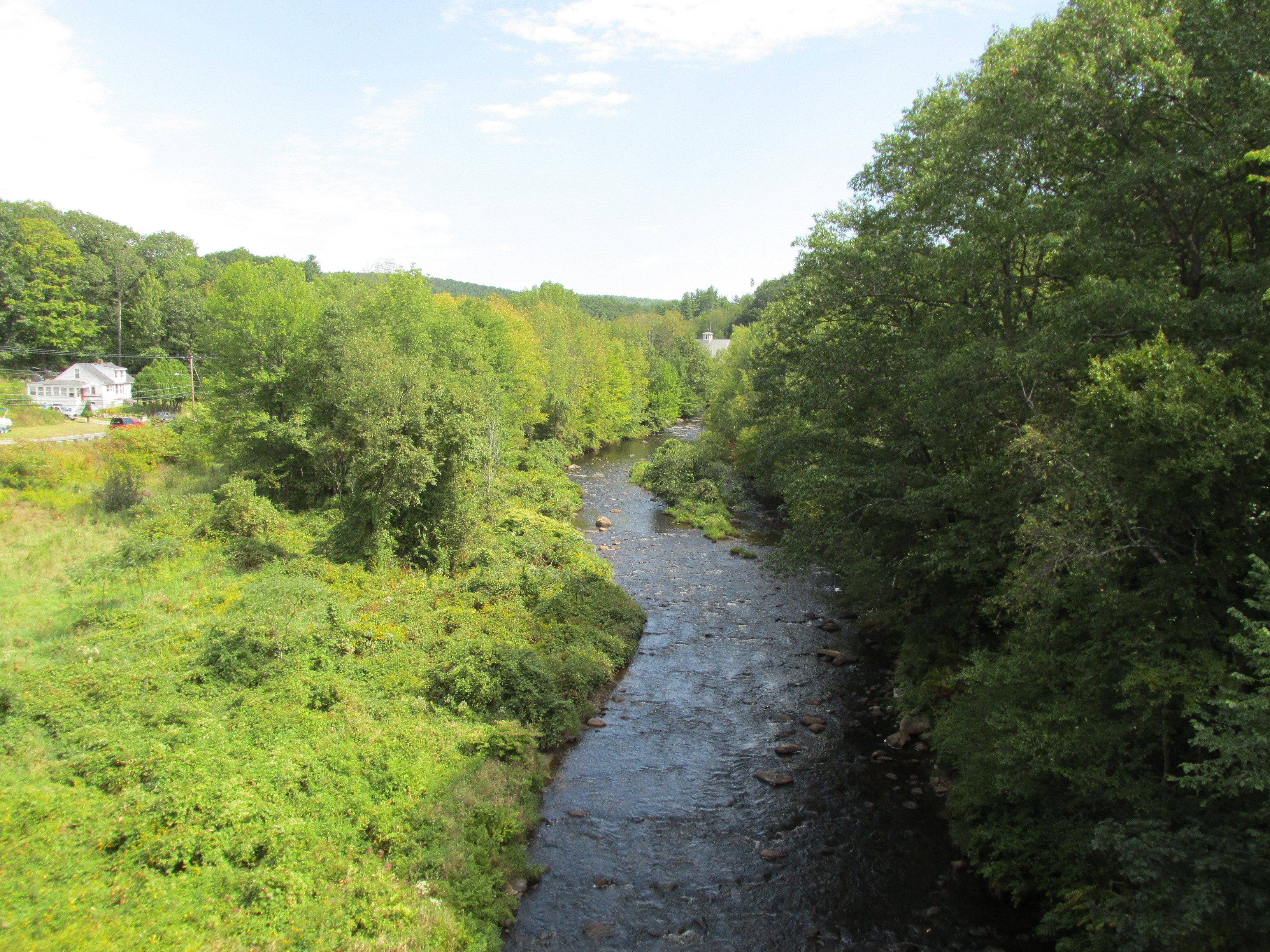 The Branch, Keene New Hampshire - 2013